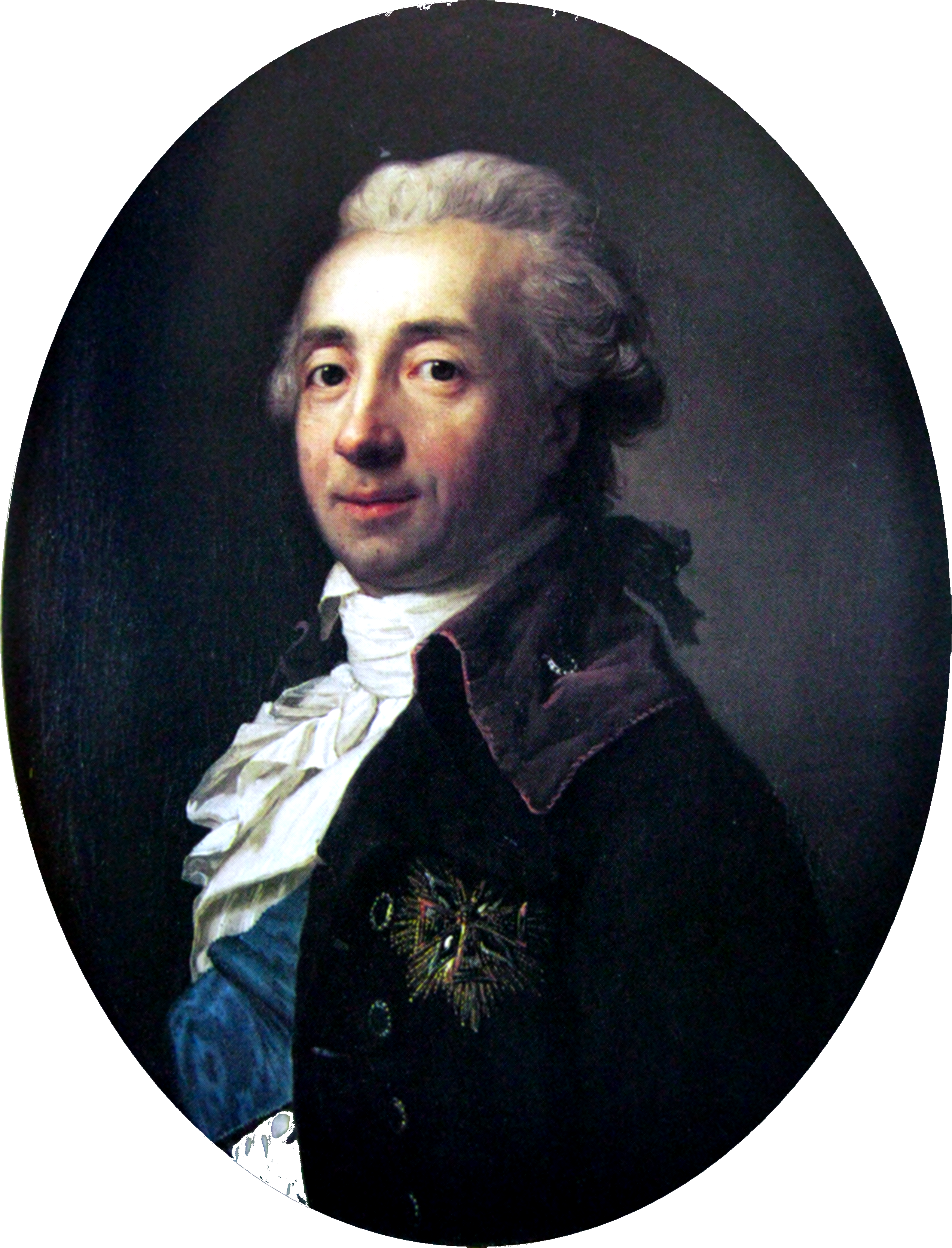 Portrait of Michał Hieronim Radziwiłł (1744-1831)